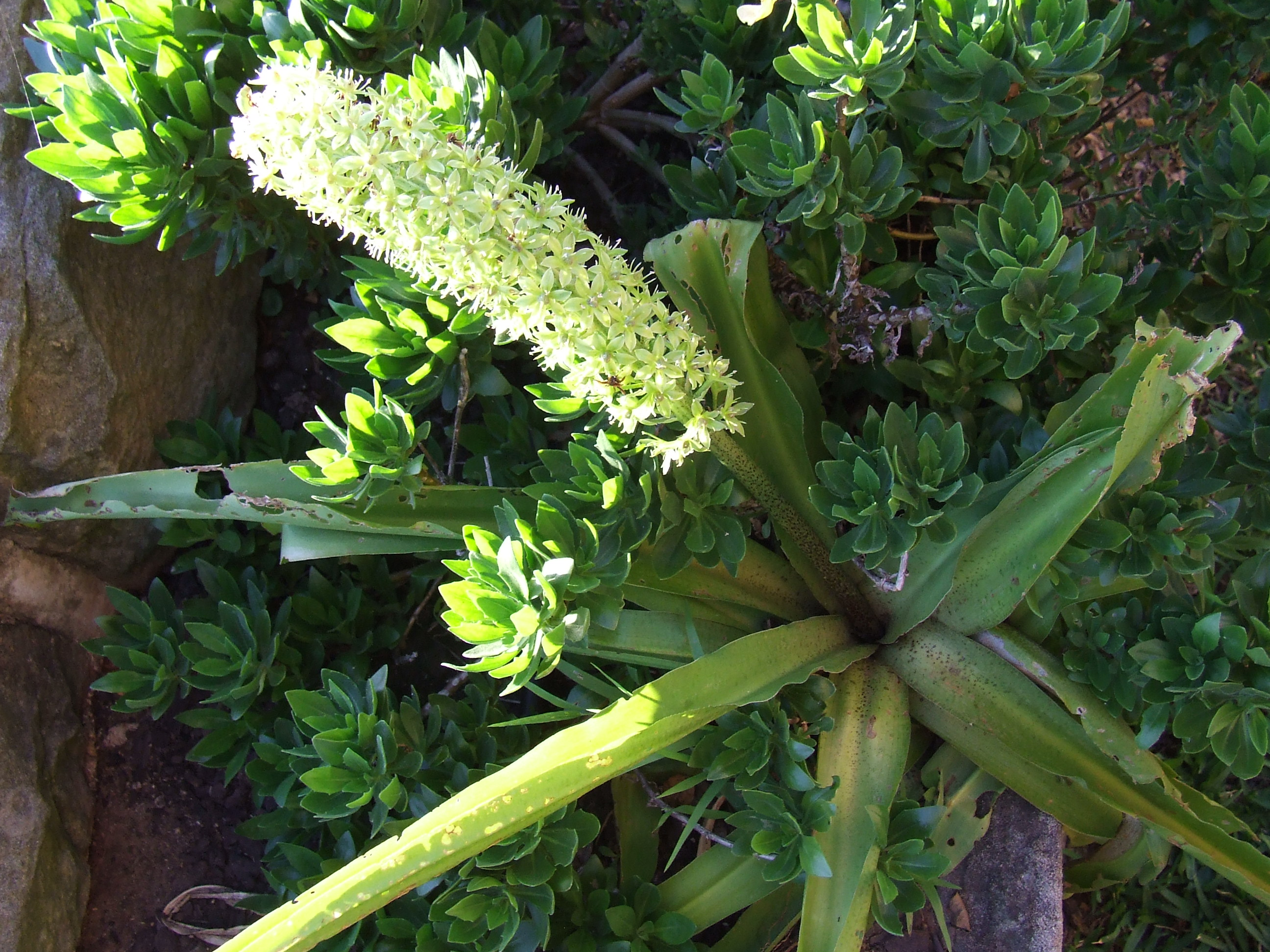 Eucomis comosa